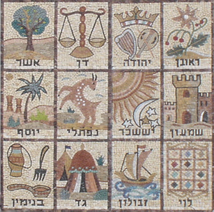 Mosaic of the 12 Tribes of Israel. From Givat Mordechai Etz Yosef synagogue facade, Ha Rav Gold street, in Jerusalem. Top row, right to left: Reuben, Judah, Dan, Asher Middle: Simeon, Issachar, Naphtali, Joseph Bottom: Levi, Zebulun, Gad, Benjamin